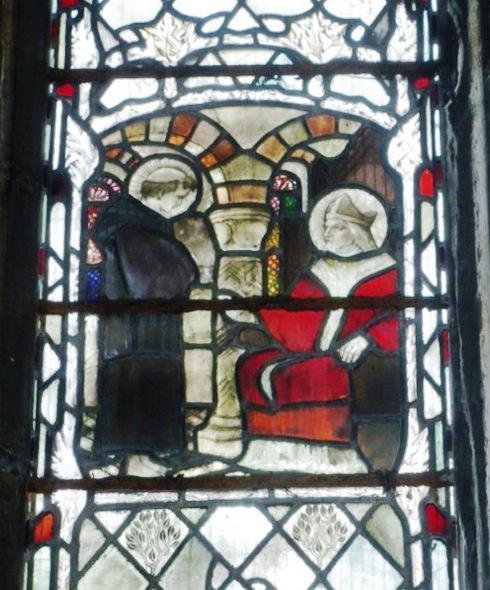 Panel in one of Christopher Whall's windows in the Lady Chapel of Gloucester Cathedral. In this particular window, Whall has depicted St Patrick, St Bede, St Helen, St Bridget and St David of Wales and in vignettes below he depicts scenes from the lives of those Saints. In this panel, Patrick is shown being taught by St Germanus.